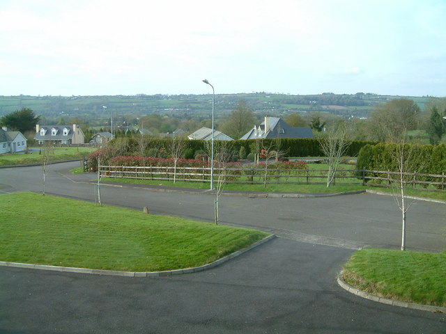 Aherla view, near to Aherla, Kilcrea, Knocknahilan, Aghnamarroge Cross Roads and Black Cross Roads, Cork, Ireland. Looking across the Cois Cear Tan estate towards Aherla and beyond from my sister-in-law's house.